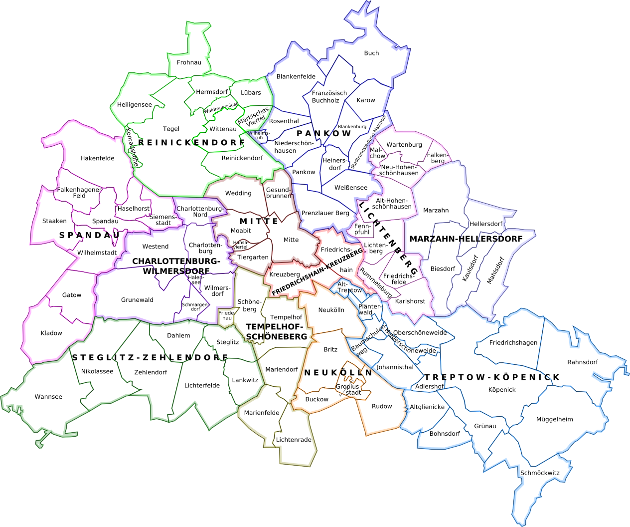 A map of the boroughs of Berlin and their subdivisions (Ortsteile)